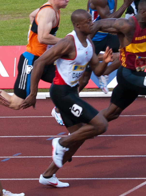 Runers in the Mens 100m Final at the Aviva 2010 UK Athletics Championships and European Trials at the Alexandra Stadium in Birmingham. Dwain Chambers wins (10.14s), followed by James Dasaolu, Marlon Devonish, Christian Malcolm and Mark Lewis-Francis.